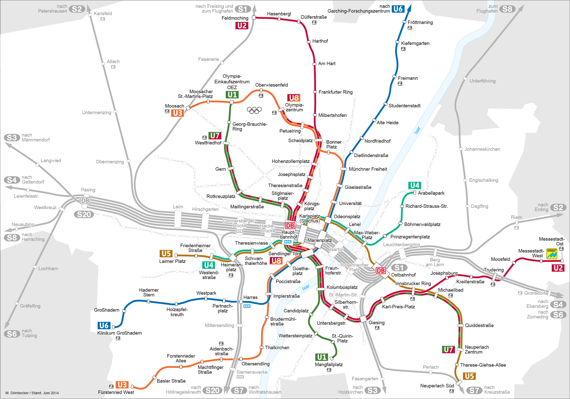 Topographical underground network map of Munich 2010